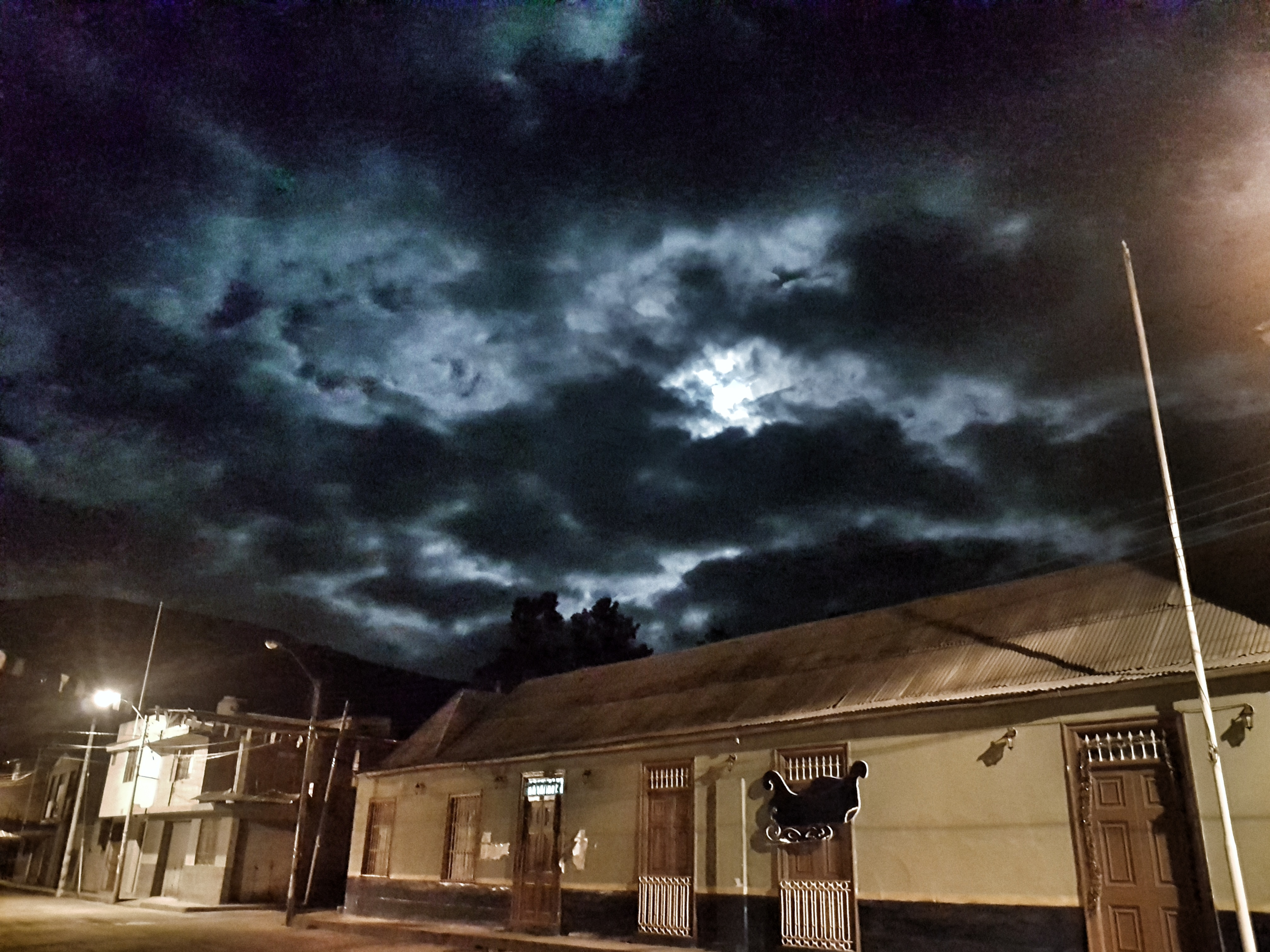 Dusk in the central square of Candarave